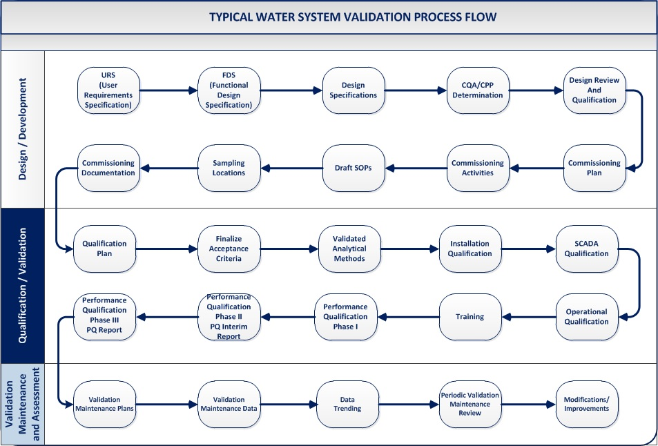 Ultrapure Water System Validation Process flow